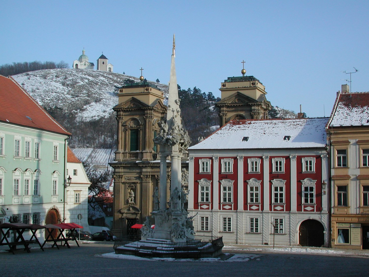 Town square of Mikulov in southern Moravia, Czech Republic